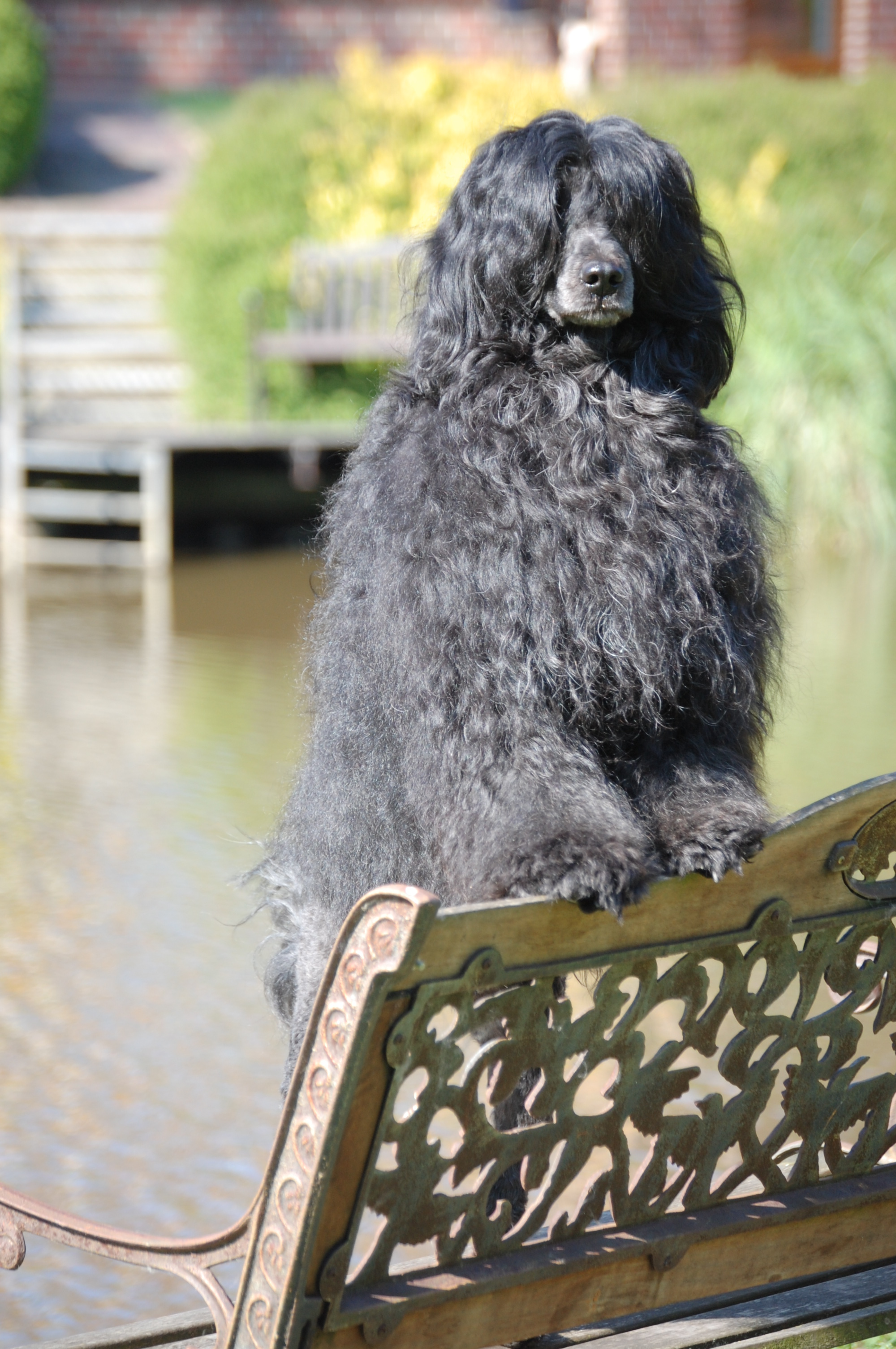 the poruguese waterdog